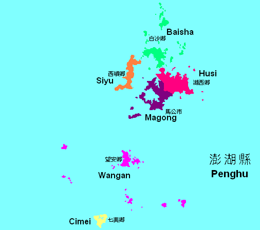 Administrative division of Penghu County